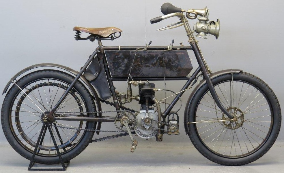 1903 Göricke 400 cc ioe automatic inlet valve motorcycle